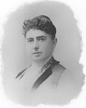 Mrs. C. A. Coolidge Other information No.